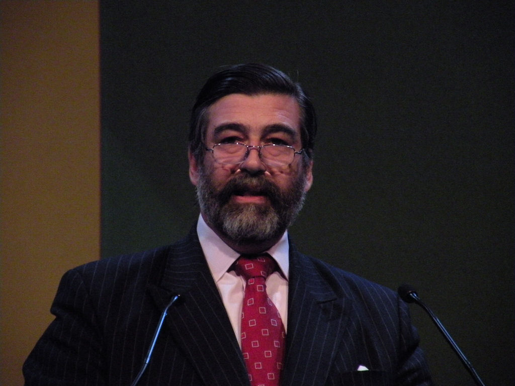 John Thurso MP addressing a Liberal Democrat conference in the Bournemouth International Centre